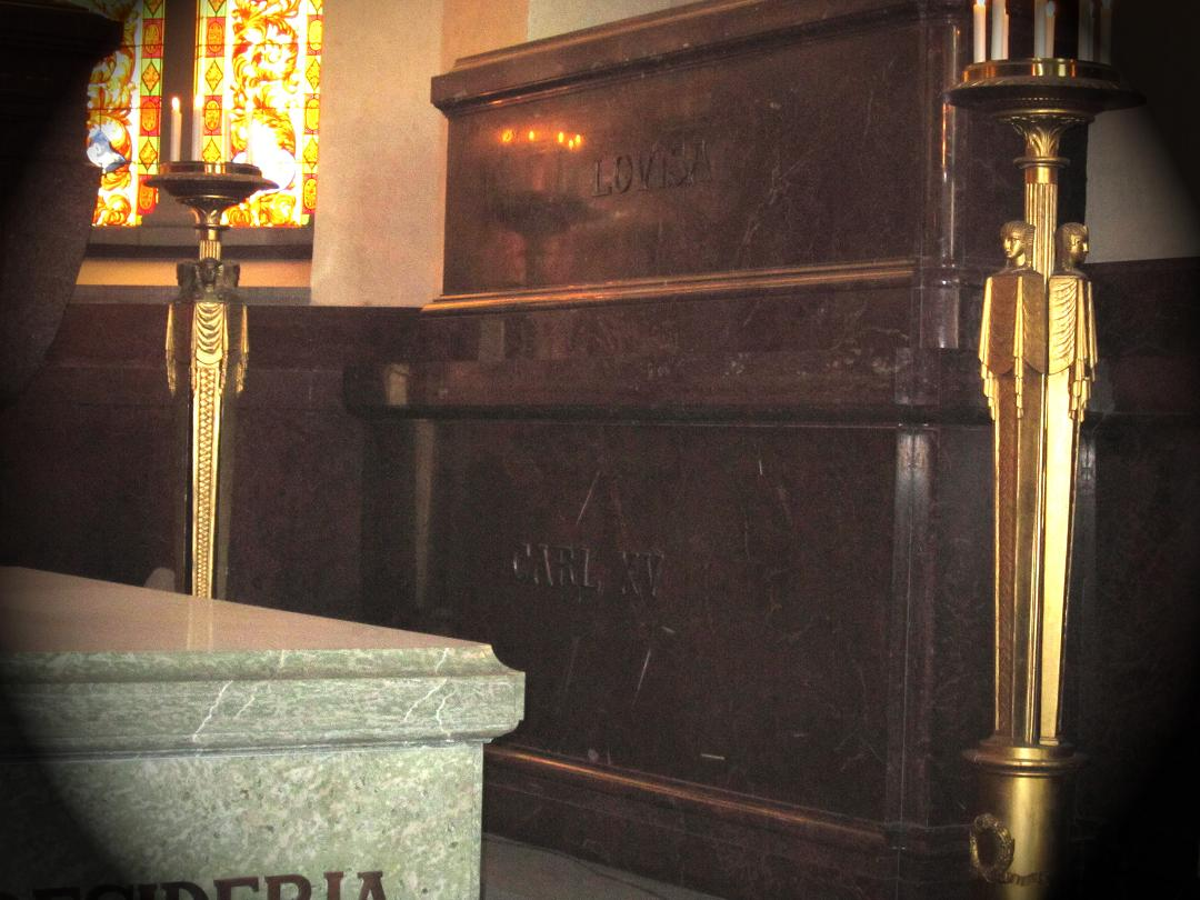 Graves of King Carl XV (Carl IV) and Queen Louise (above) of Sweden and Norway stacked from the ground floor of the Bernadottean Chapel at Riddarholm ChurchPlace: Stockholm, Sweden